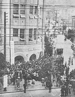 Hanshin Educational Incident